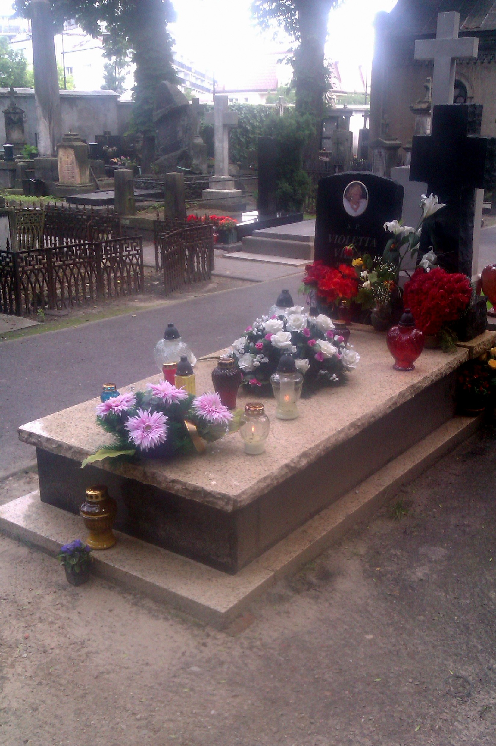 Violetta Villas' grave in Warsaw